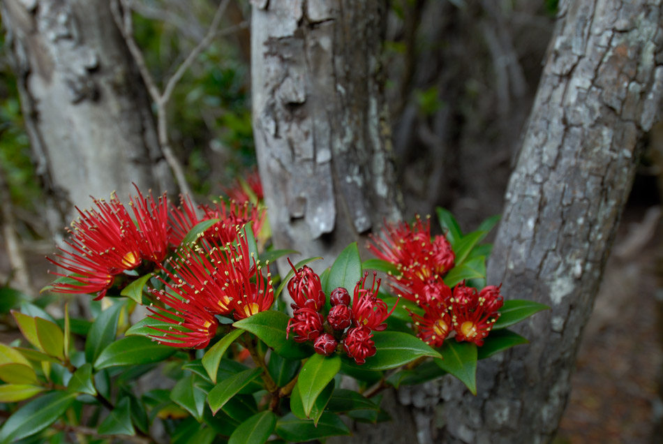 Southern Rātā (Metrosideros umbellata) on the Auckland Islands south of New Zealand.